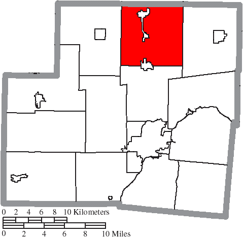 Map of the municipal and township boundaries of Shelby County, Ohio, United States, as of the 2000 census, with the location of Dinsmore Township highlighted. Township borders are shown only in unincorporated areas in order to differentiate incorporated and unincorporated areas more clearly.